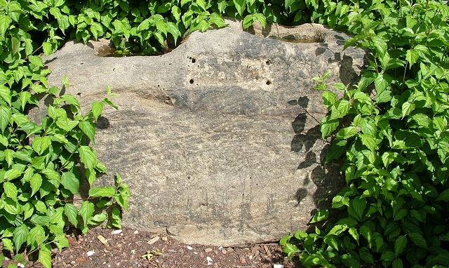 A picture of the "Great Stone", a possible plague stone, in Stretford, Lancashire. (Taken in May 2007, after the stone had been moved from its original site in nearby Great Stone Road to Gorse Hill Park